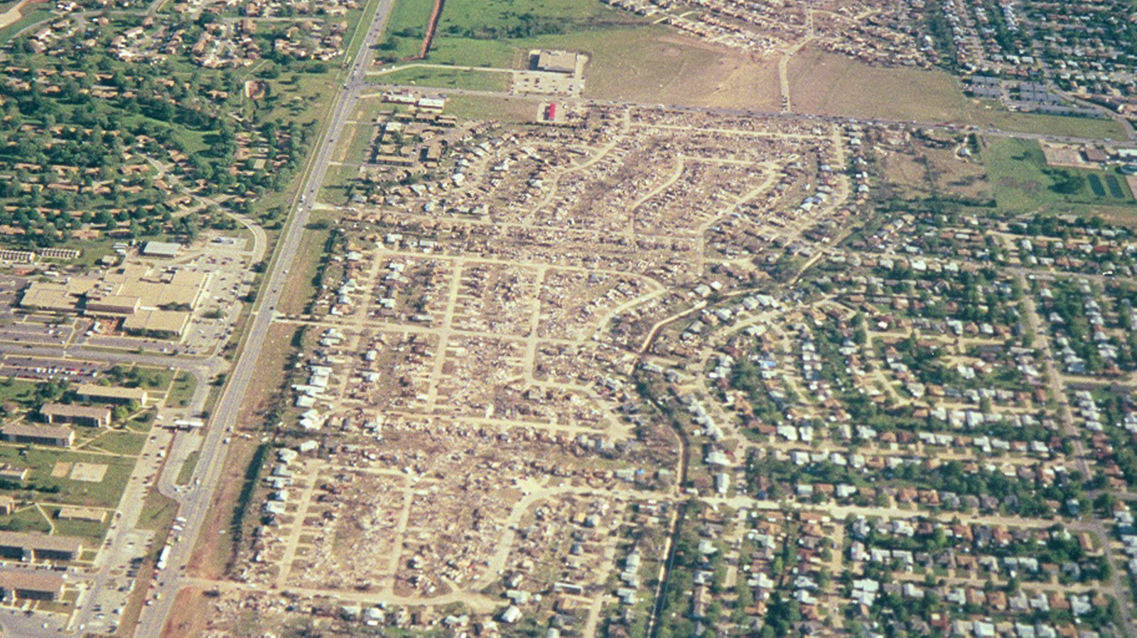 Tornado damage in Del City near the Sooner Road/Del View Drive intersection, facing southward – Tinker Air Force Base is off the left edge of the viewable image, and the primary road running from top to bottom on the left side is Sooner Road. To the right of the road is Del City, and to the left of the road is Oklahoma City. There are multiple left-right roads in this image; the one running from Sooner Road all the way to the right side of the image (it is nearest the top) is SE 44th Street. All the land beyond that road is also part of Oklahoma City.